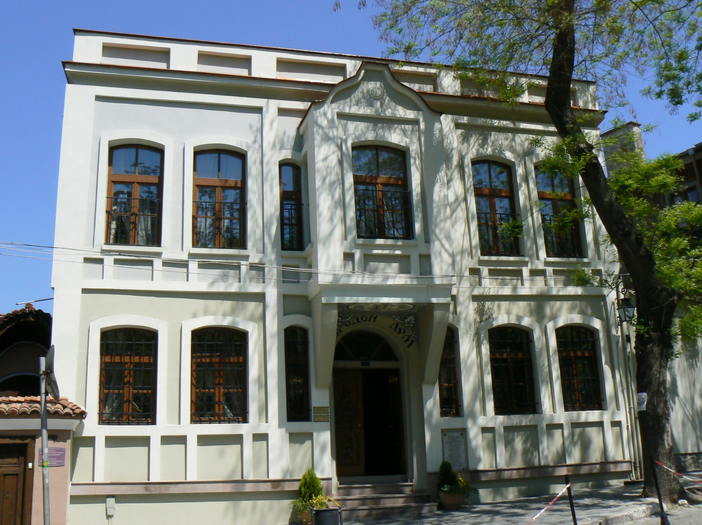 Headquarters of the Interim Russian Government of Bulgaria in 1878, Plovdiv, Bulgaria